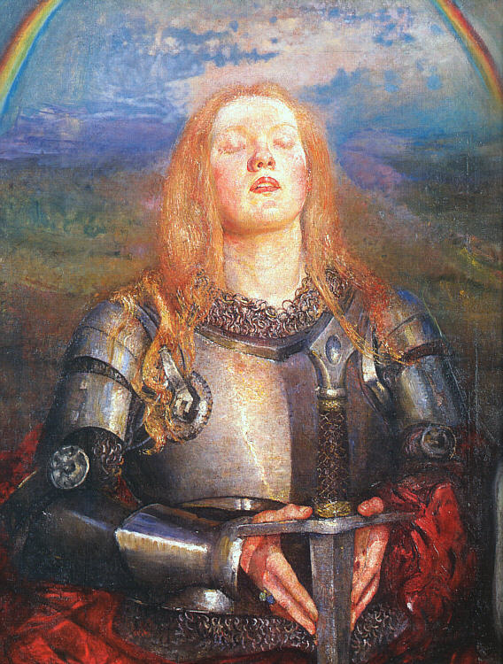 Joan of Arc